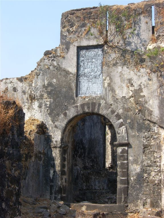 Inscription in Portuguese on Korlai fort, Maharashtra, India